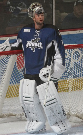 Jack Campbell playing for the Idaho Steelheads.